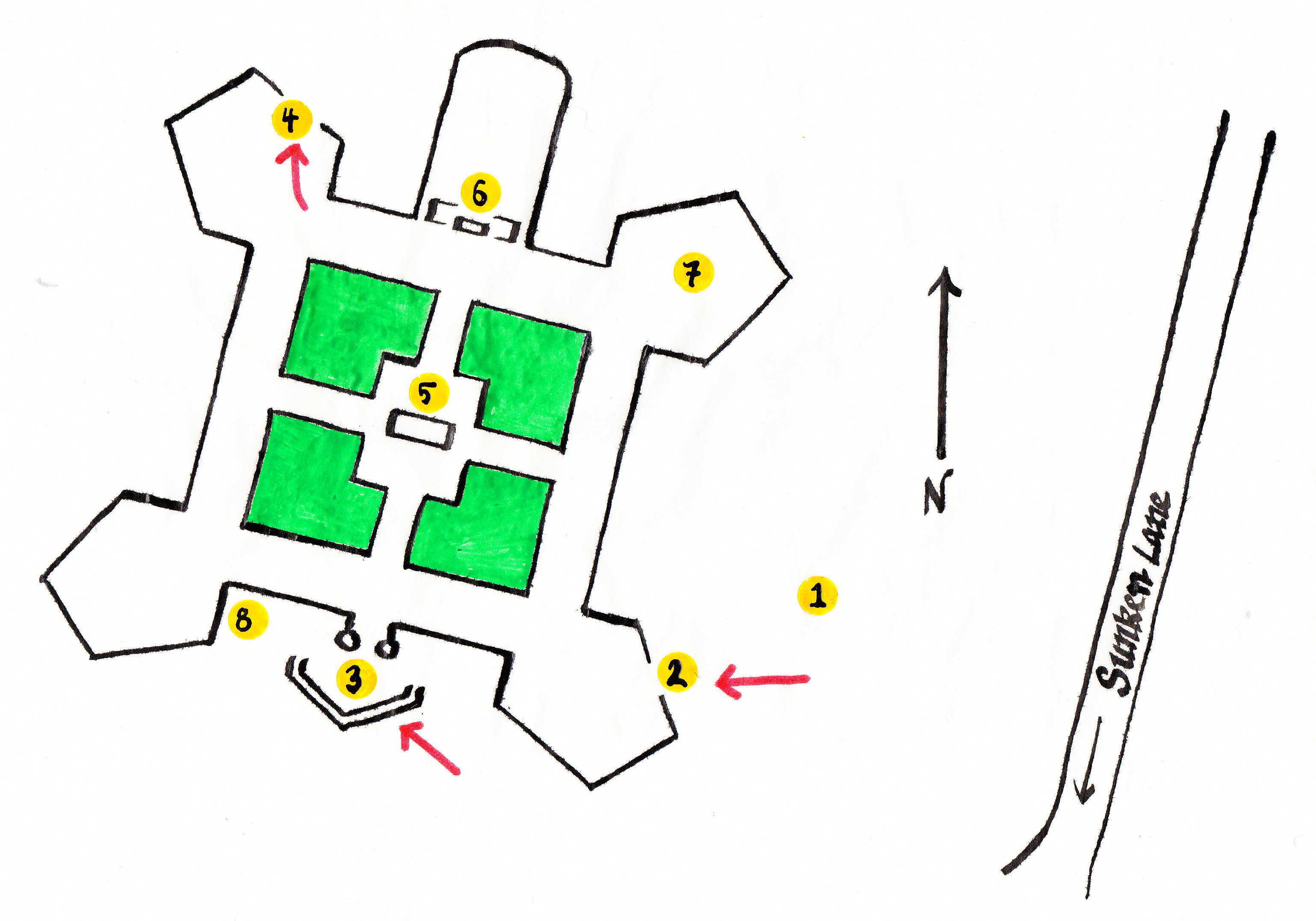 Storming of the Sikandar Bagh, Lucknow, on 16 November 1857. Source: Regimental History of the 4th Battalion, 13th Frontier Force Rifles (Wilde's), anonymous author, Central Library, RMA Sandhurst, c.1930, reprinted 2005, p.22/23. Key: (1)Position of 18-pounder guns; (2) Breach made in wall; (3) Gateway; (4) Bastion stormed from inside by 4th. Punjab Infantry Regt., cutting off enemy's retreat; (5) Centre pavilion with verandah; (6) One-storied building overlooking whole garden with own courtyard behind; (7) East bastion, exploded, killing Lt. Paul, in command of 4th P.I.; (8) Spot occupied by Sir Colin Campbell, C-in-C, and Staff from November 18 to 22.